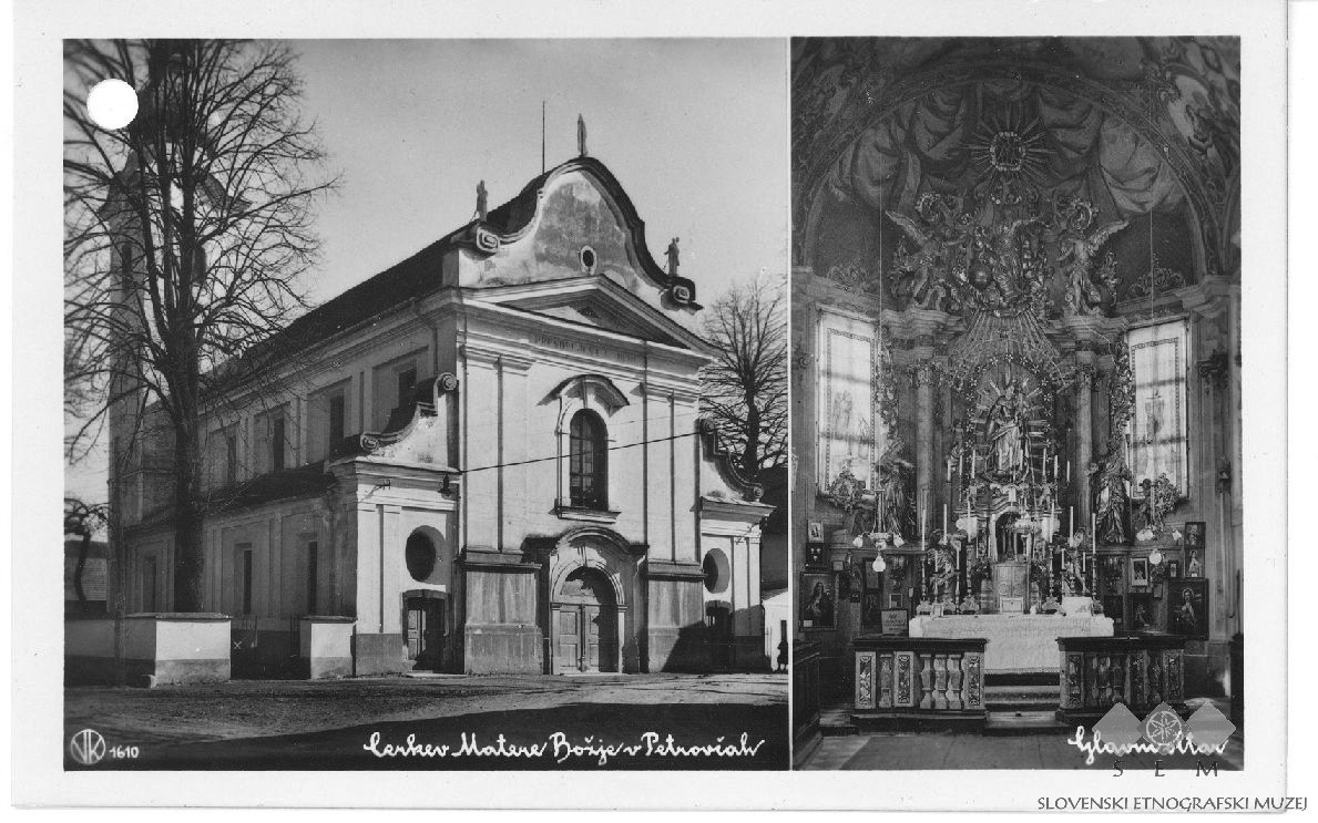 Postcard of Petrovče